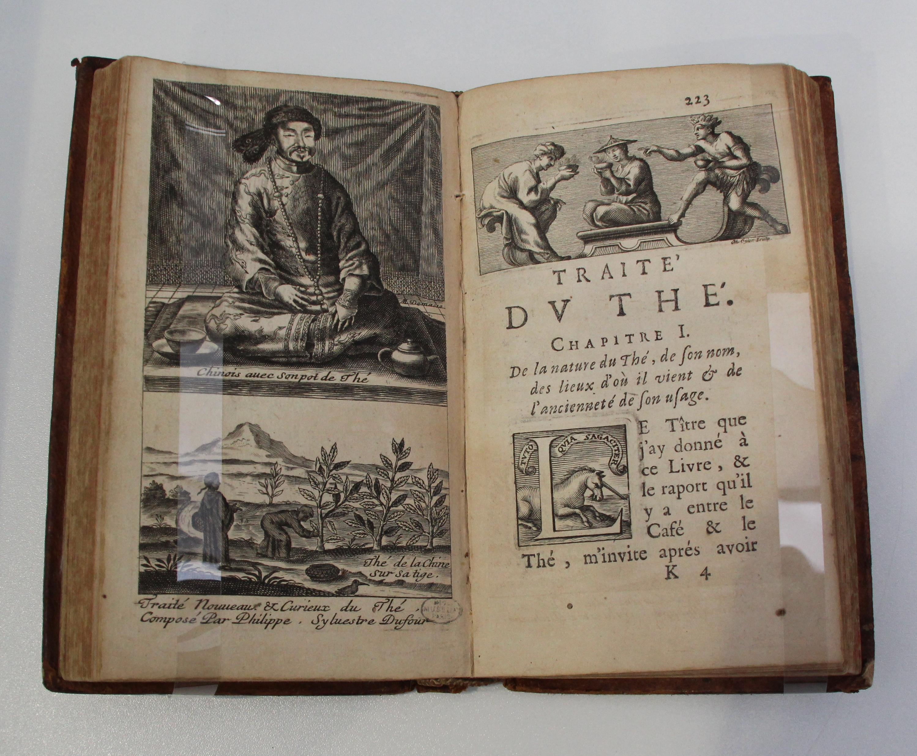 Philippe-Sylvestre Dufour (1622 - 1687) New and curious treaty on coffee, tea and chocolate: Book useful to physicians & all those who love their health - Lyon, Jean Girin and B. Rivière, 1685 - From Miche-Eugène Chevreul - MNHN Library Ch 2049 at the Antiquarian book and print fair in 2013 at the Grand Palais in Paris, France.